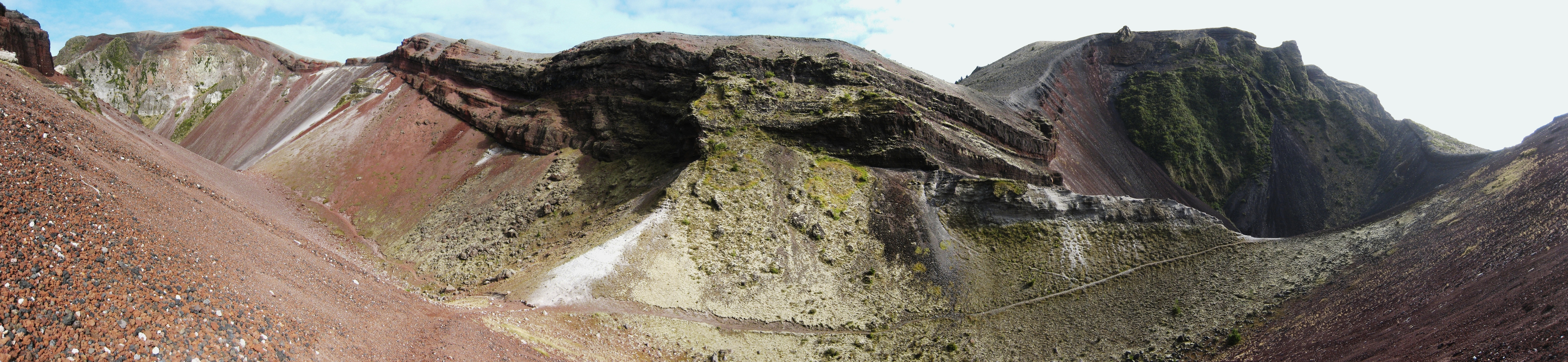 Panoramic view of part of the Tarawera rift, from halfway up the slope.